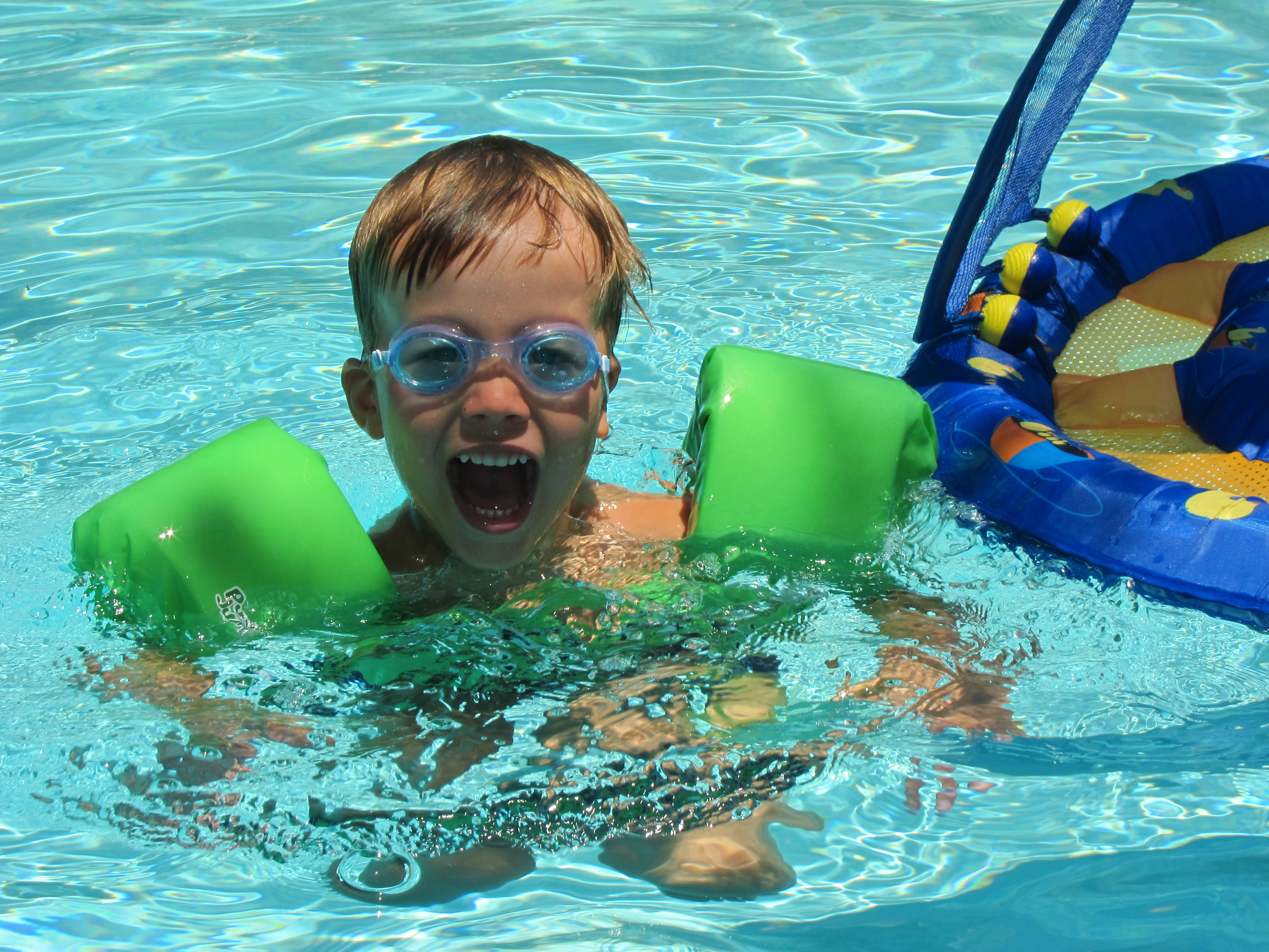 Child wearing green inflatable armbands and goggles.